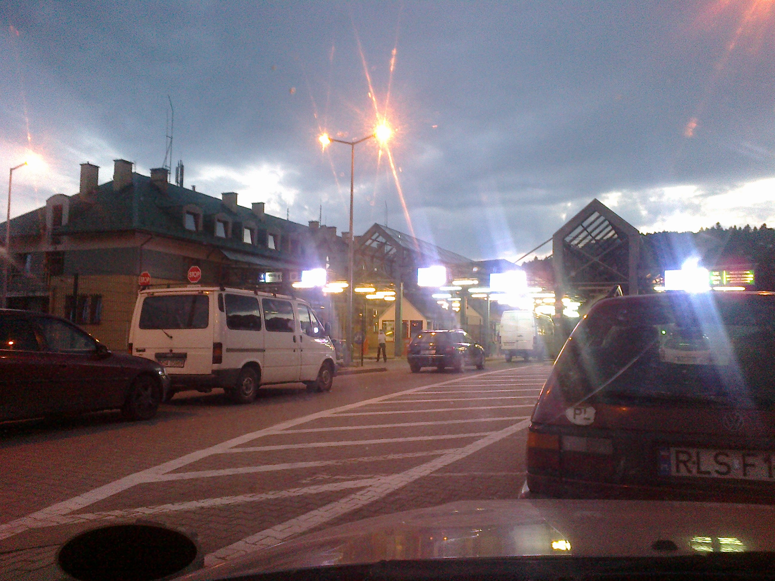 Border terminal in Krościenko, PL. Ukrainian and Polish border frontier of the European Union